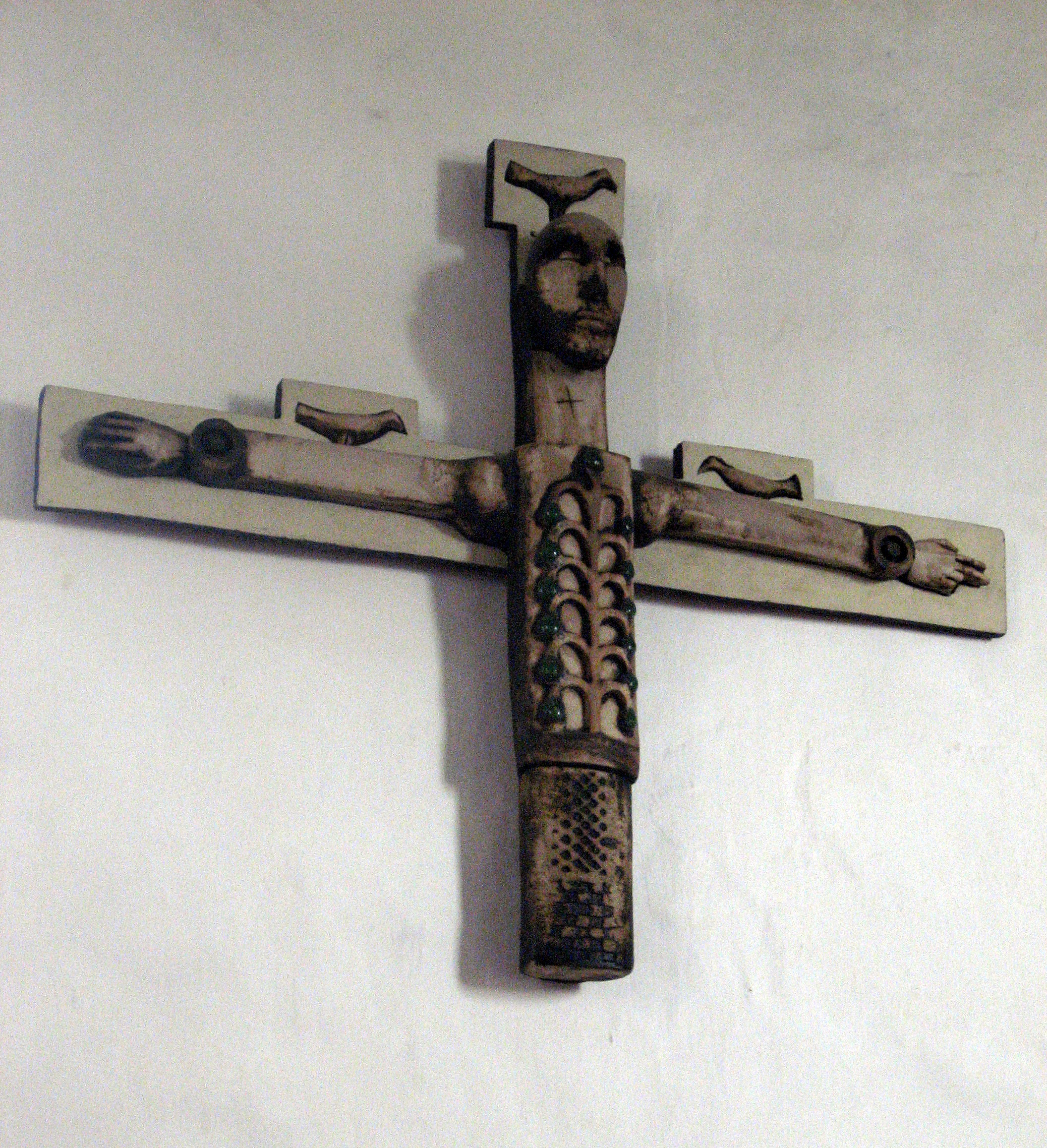 Hasle Kirke in Hasle, Århus, Denmark. Crucifix on the north wall of the nave.